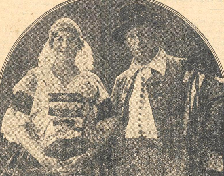 Herman Roelvink en Top Naeff